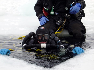 This is a picture of myself, taken with my camera, during ice diving in the St. Lawrence river on February 24th, 2004.